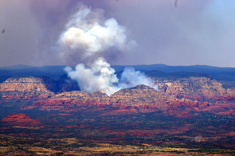 Picture of Sedona, Arizona Brins fire